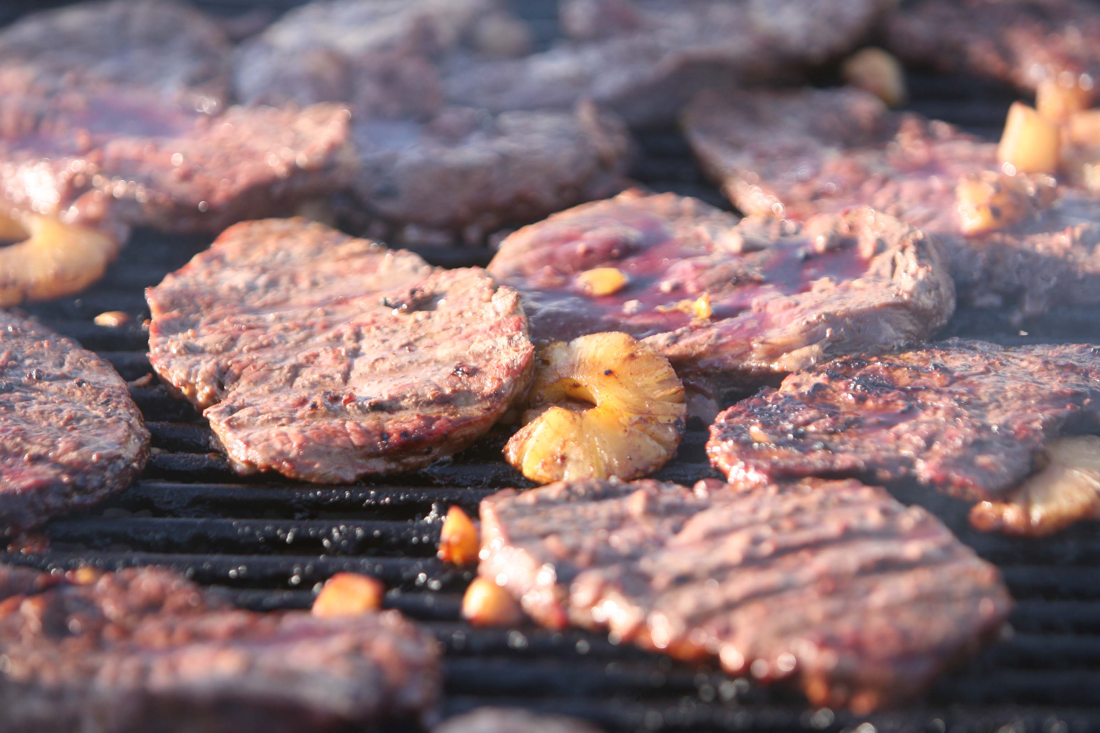 Marine Corps Air Ground Combat Center, Twentynine Palms, Calif. -- North Carolina-based 3rd Battalion, 2nd Marine Regiment conducted a barbecue dinner here May 3. The unit's senior enlisted put on the event for Marines and Sailors as a reward training hard at the Marine Corps' top pre-deployment desert training called Mojave Viper. Steaks with pineapple, hot dogs and hamburgers were some of the things served there. The unit will deploy later this year.